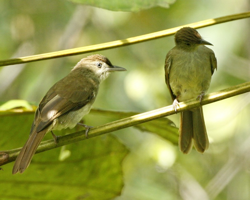 Buff-vented Bulbul Iole olivacea Panti Forest, Johor, Malaysia 18th. November 2007 _Q0S1603